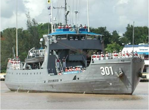 Dominican Navy PA-301 Almirante Juan Alejandro Acosta, ex USCGC Citrus (WLB-300) of USCG 180' Class Seagoing Buoy Tenders